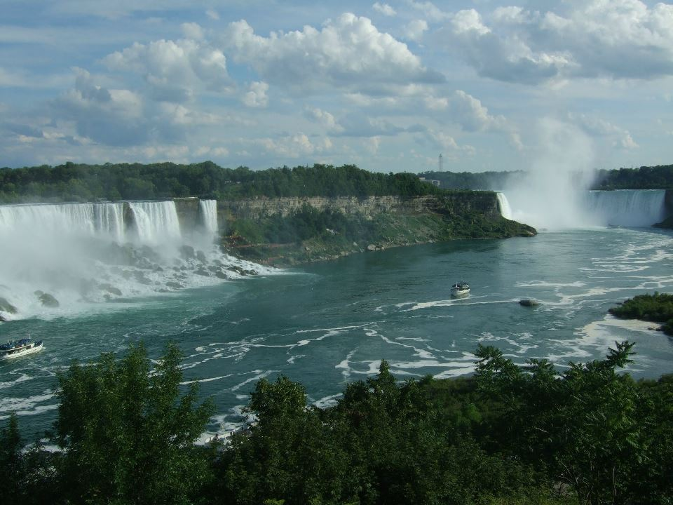 All the Niagara Falls